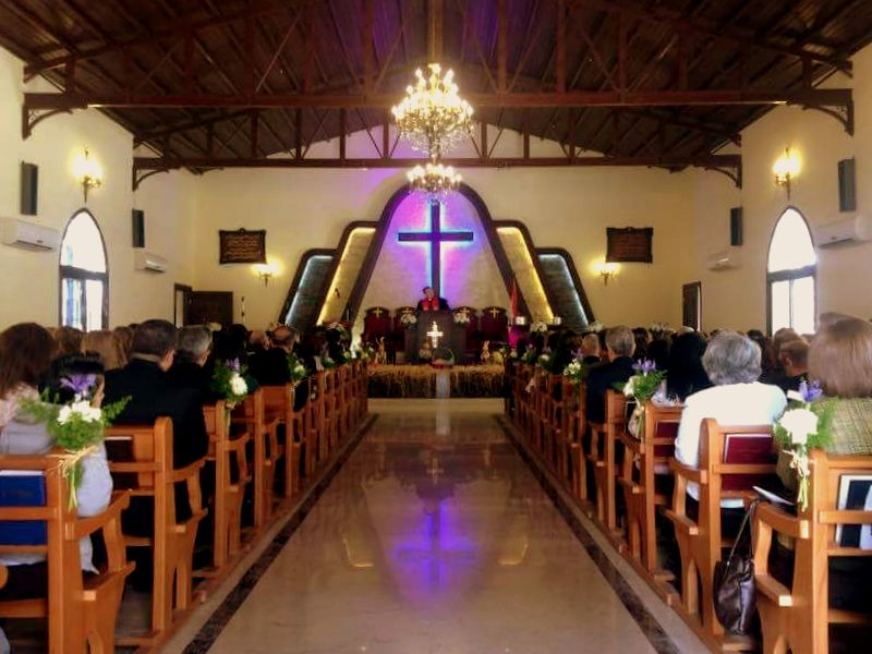 National Presbyterian Church of Aleppo, the new church.